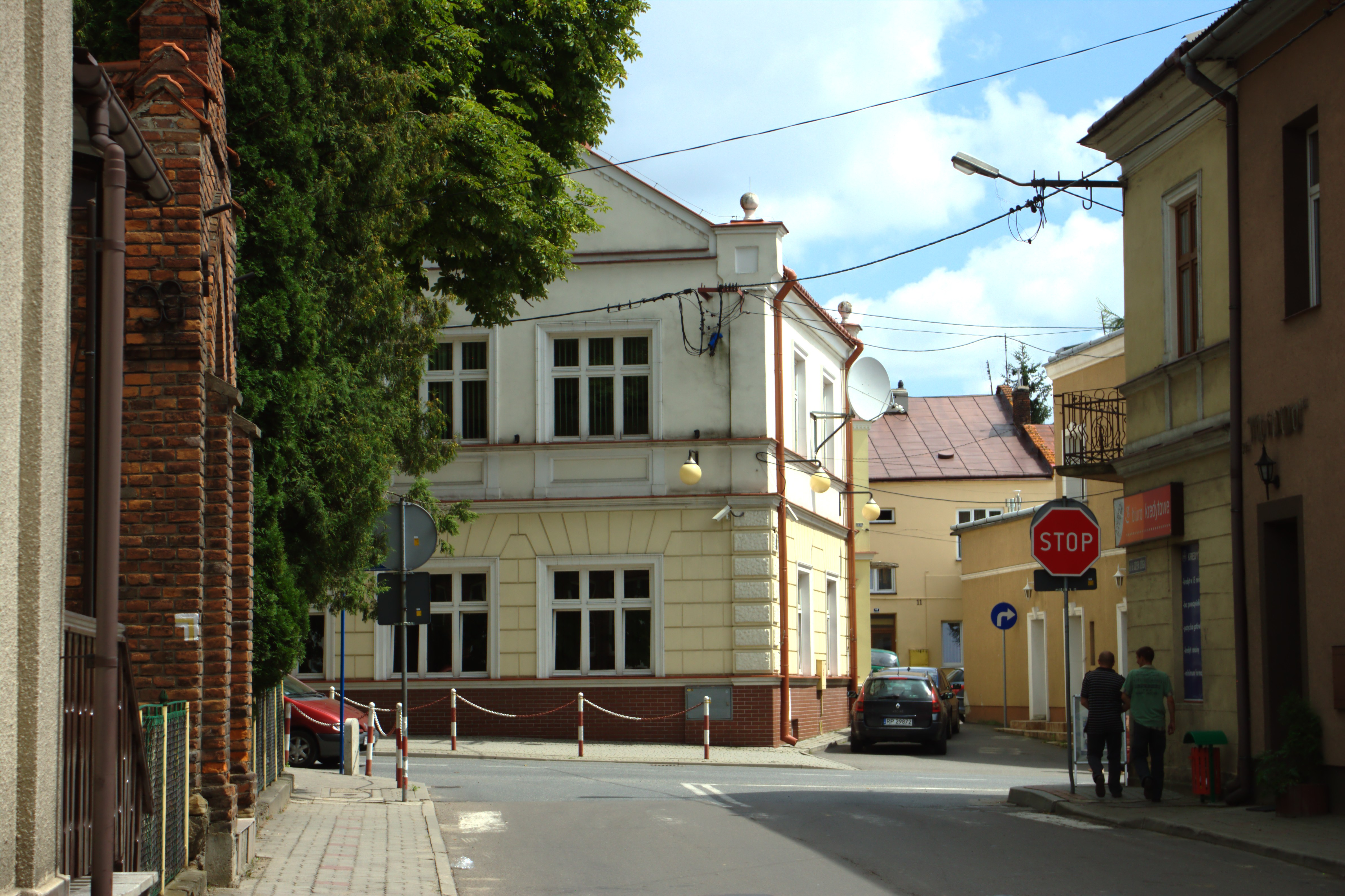 A crossroad in the very center of the town of Dynów. Podkarpackie voivodeship, Poland